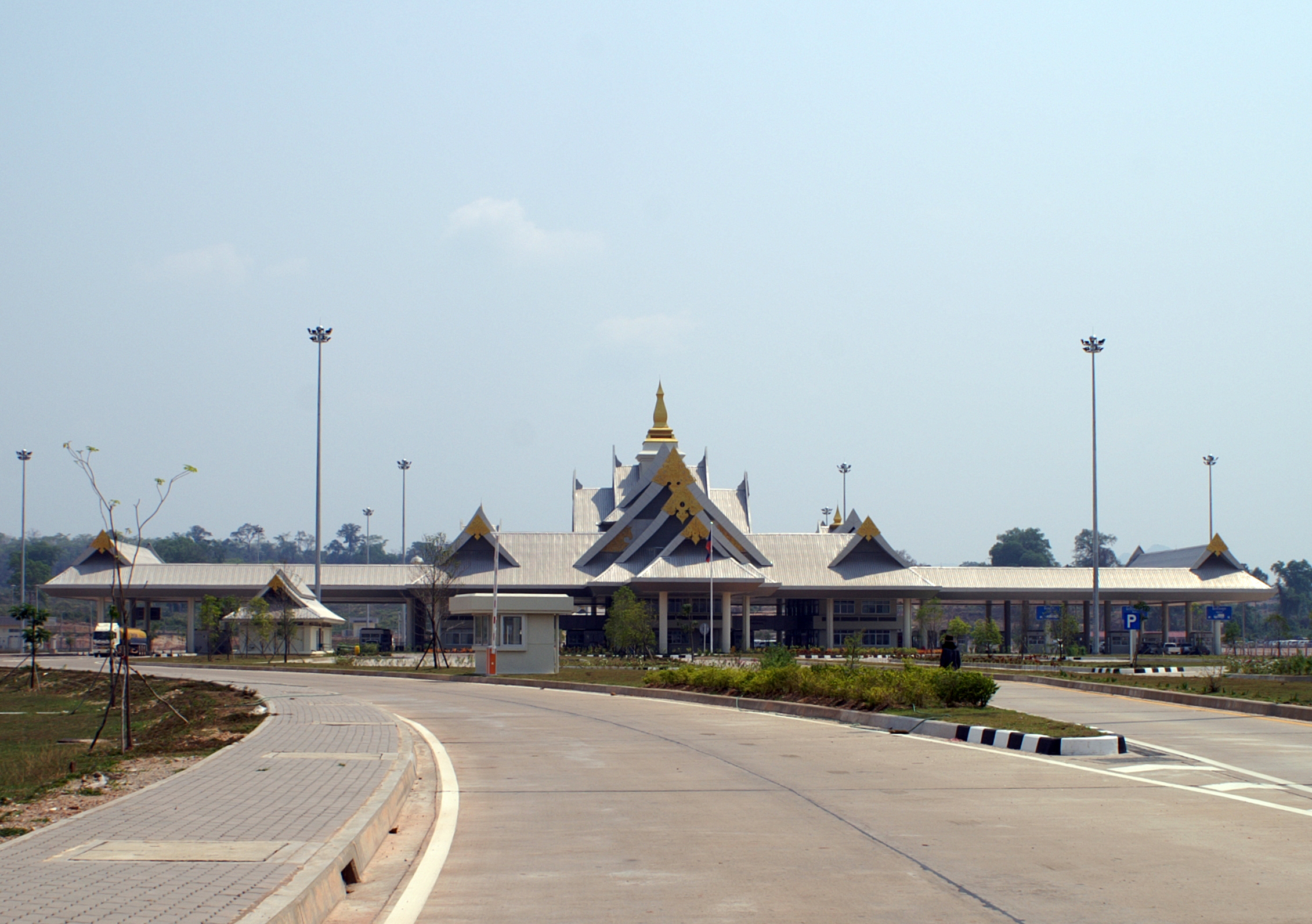 Third Thai–Lao Friendship Bridge access (laotian side)